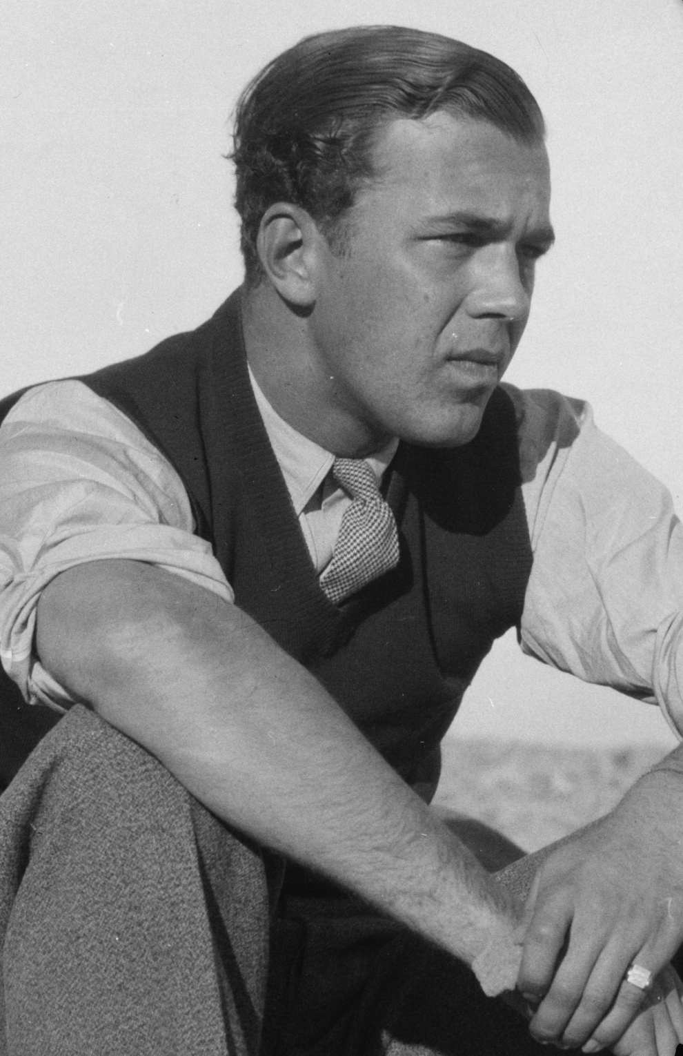 Prince Bertil of Sweden, Duke of Halland